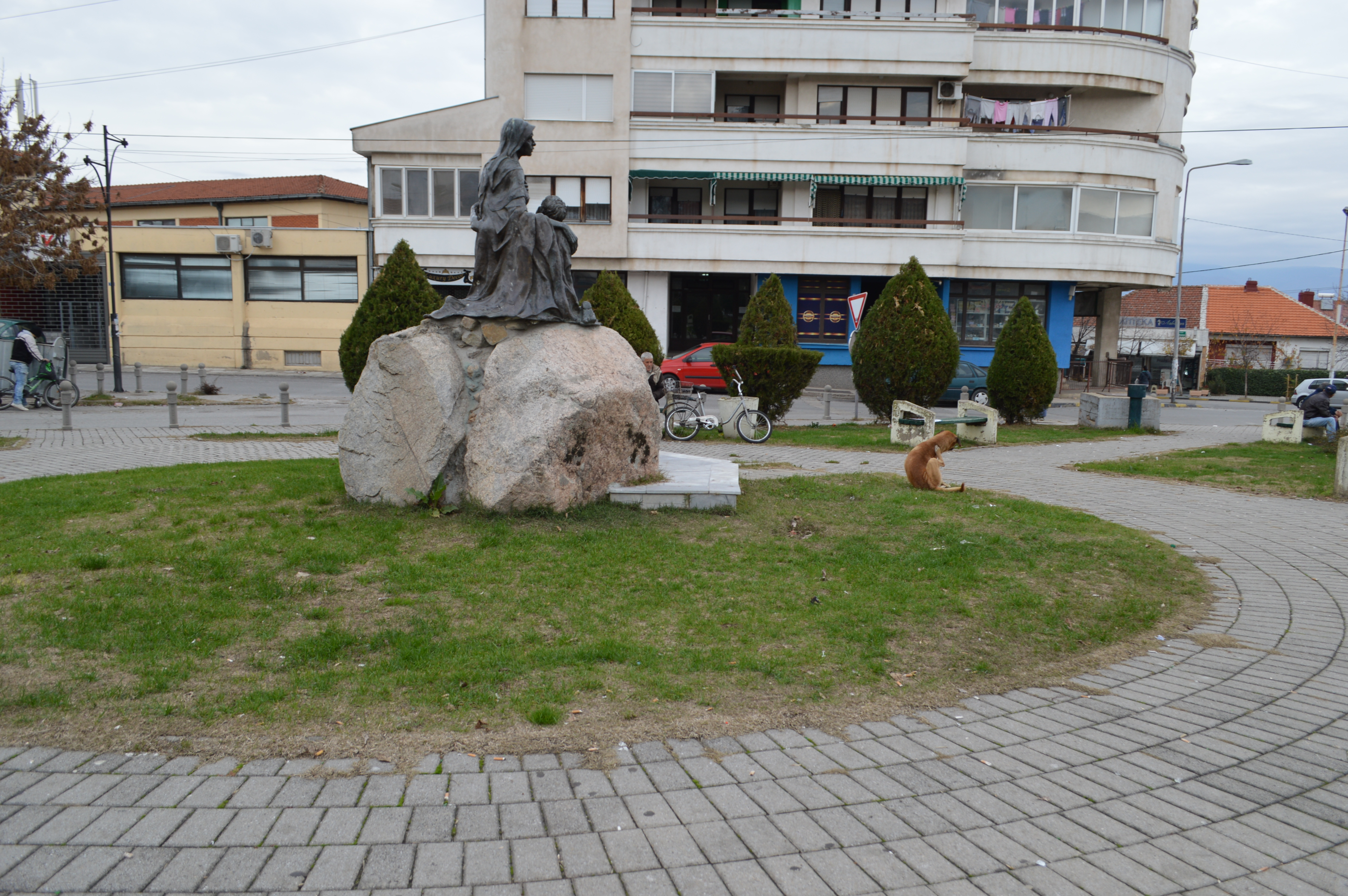 The Bezhanski Park in Bezhanci neighborhood in Strumica, Republic of Macedonia. In the center is a monument for the kids-refugees (bezhanci).